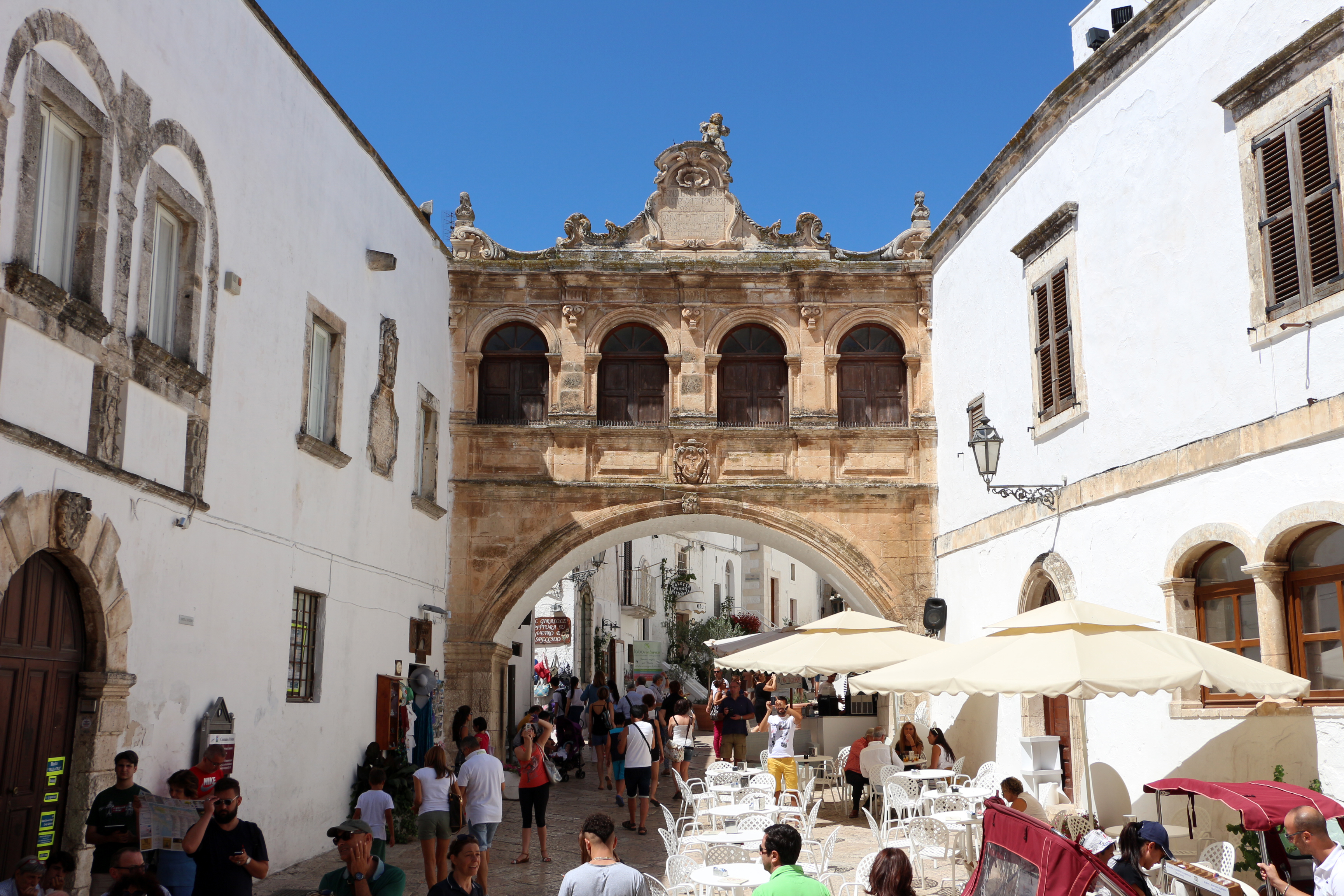 Ostuni